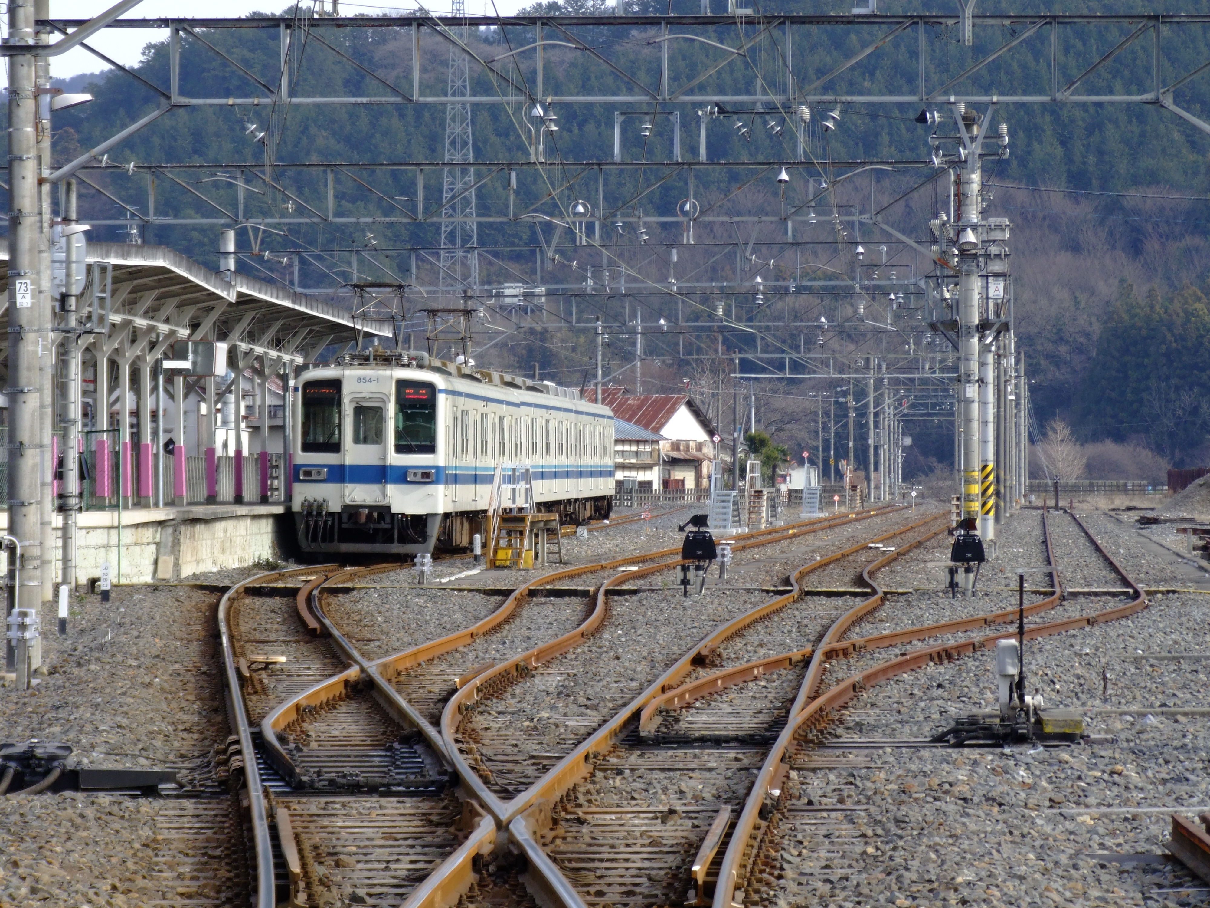 The pricinct of Kuzuu Station taken from railroad crossing (level crossing)